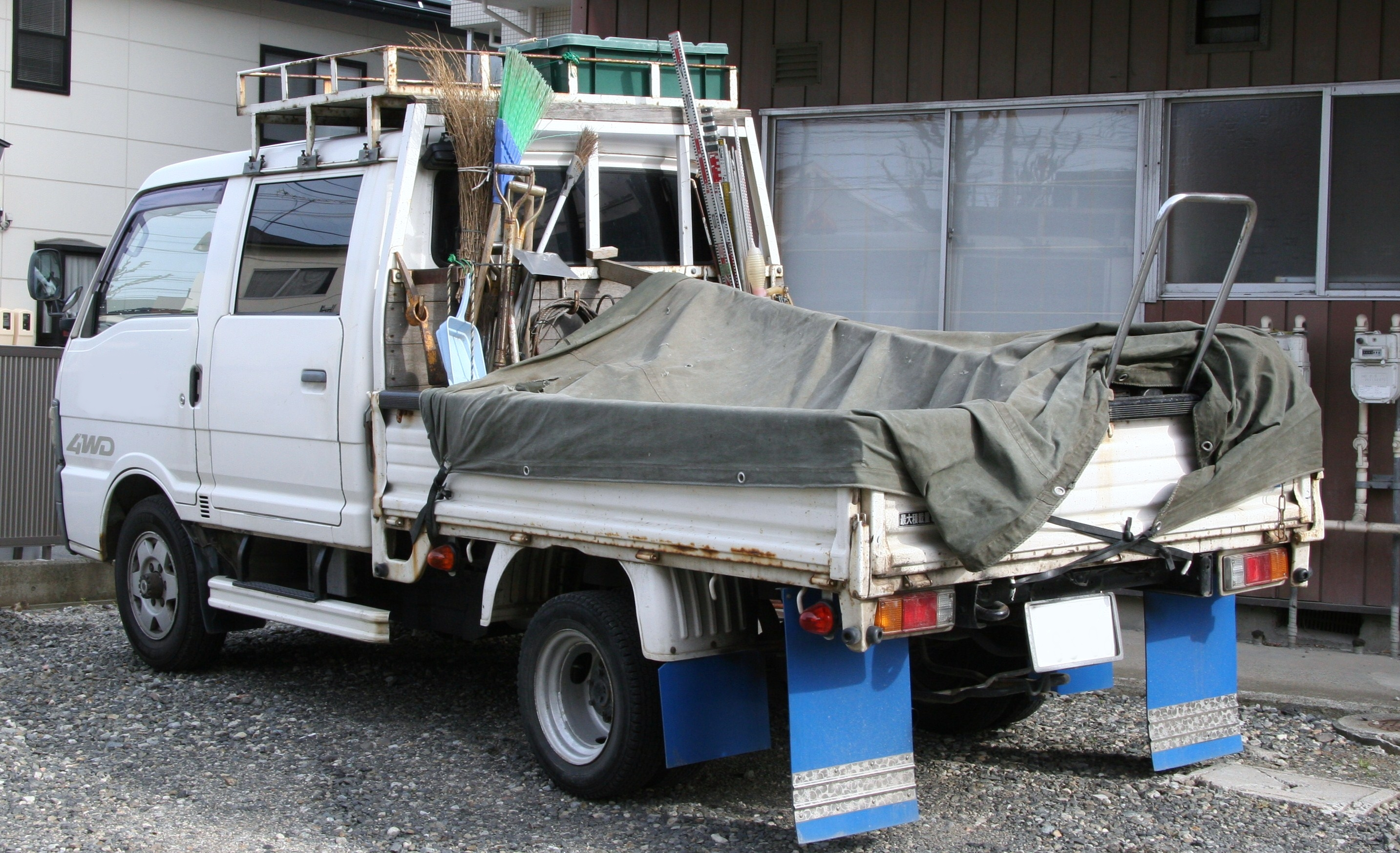 Mazda Bongo Brawny